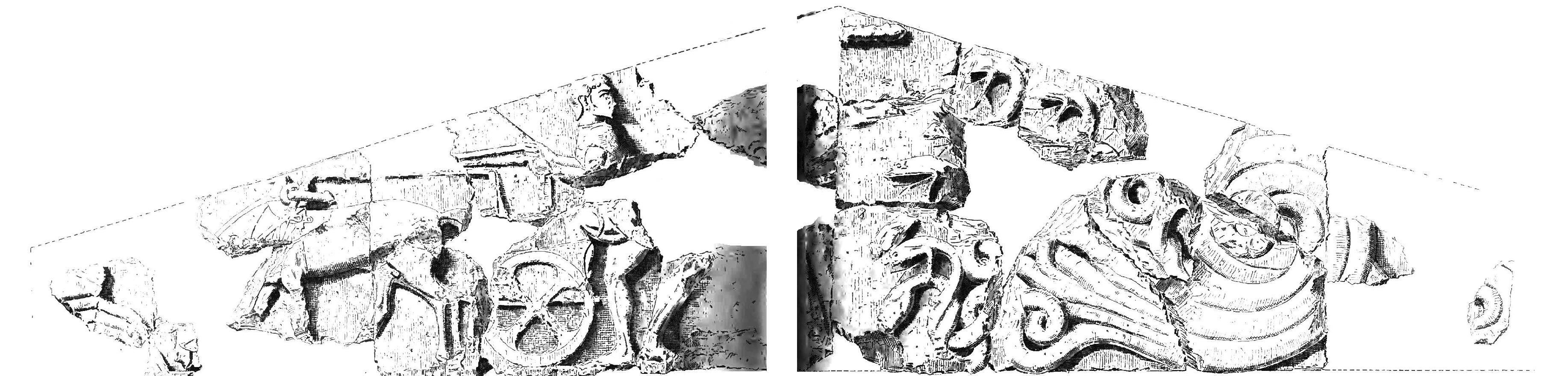 ancient pediment found on Acropolis